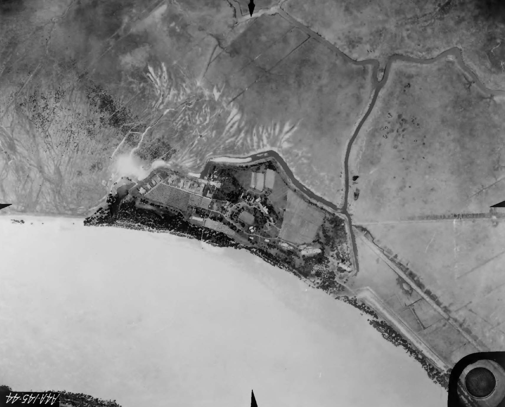 Fort St. Philip, Plaquemines Parish, Louisiana. Air view, 1935, showing condition of the Fort at the time, and the surrounding area, with farmland, bend in the Mississippi River.